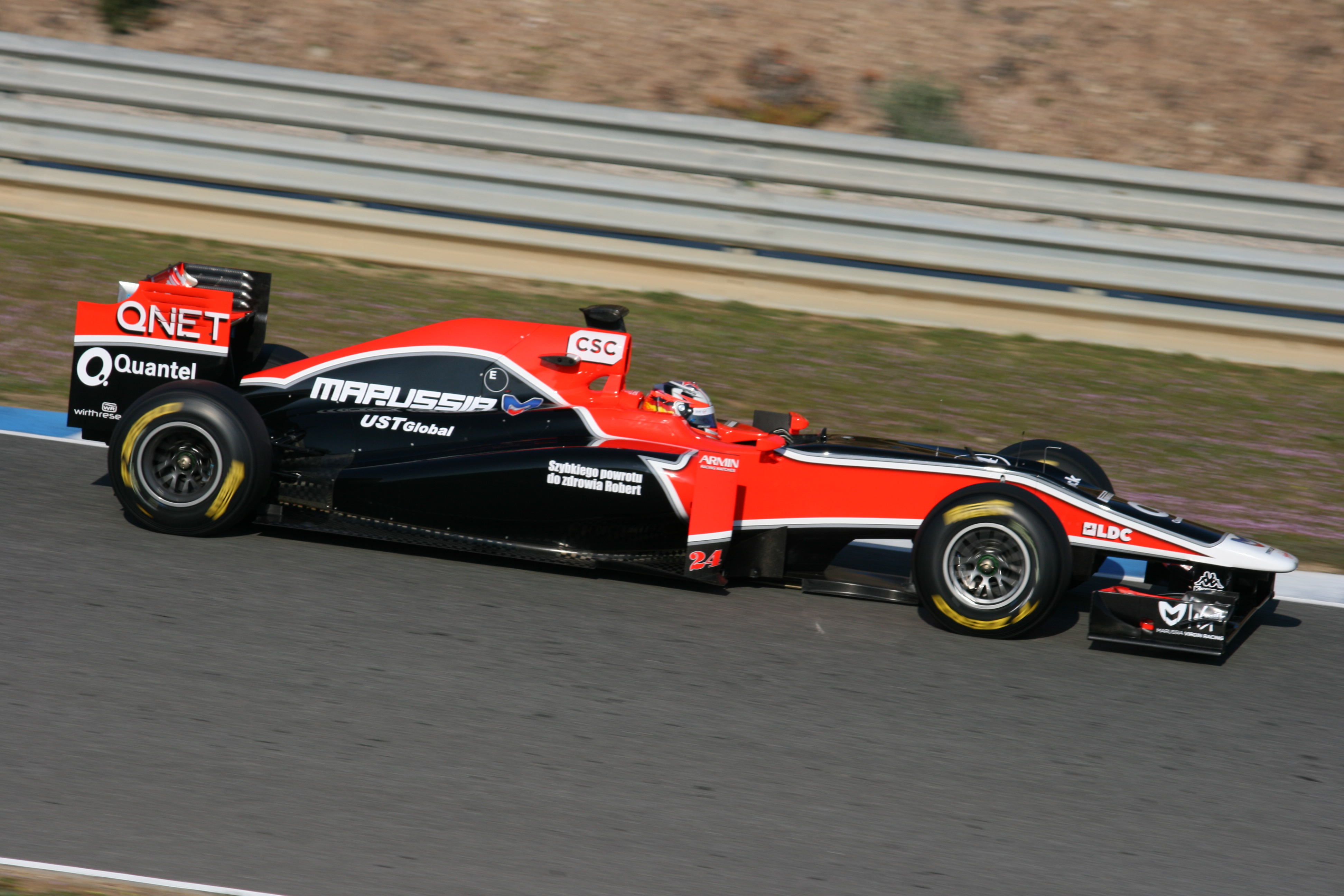 Timo Glock testing for Marussia Virgin Racing at Jerez.